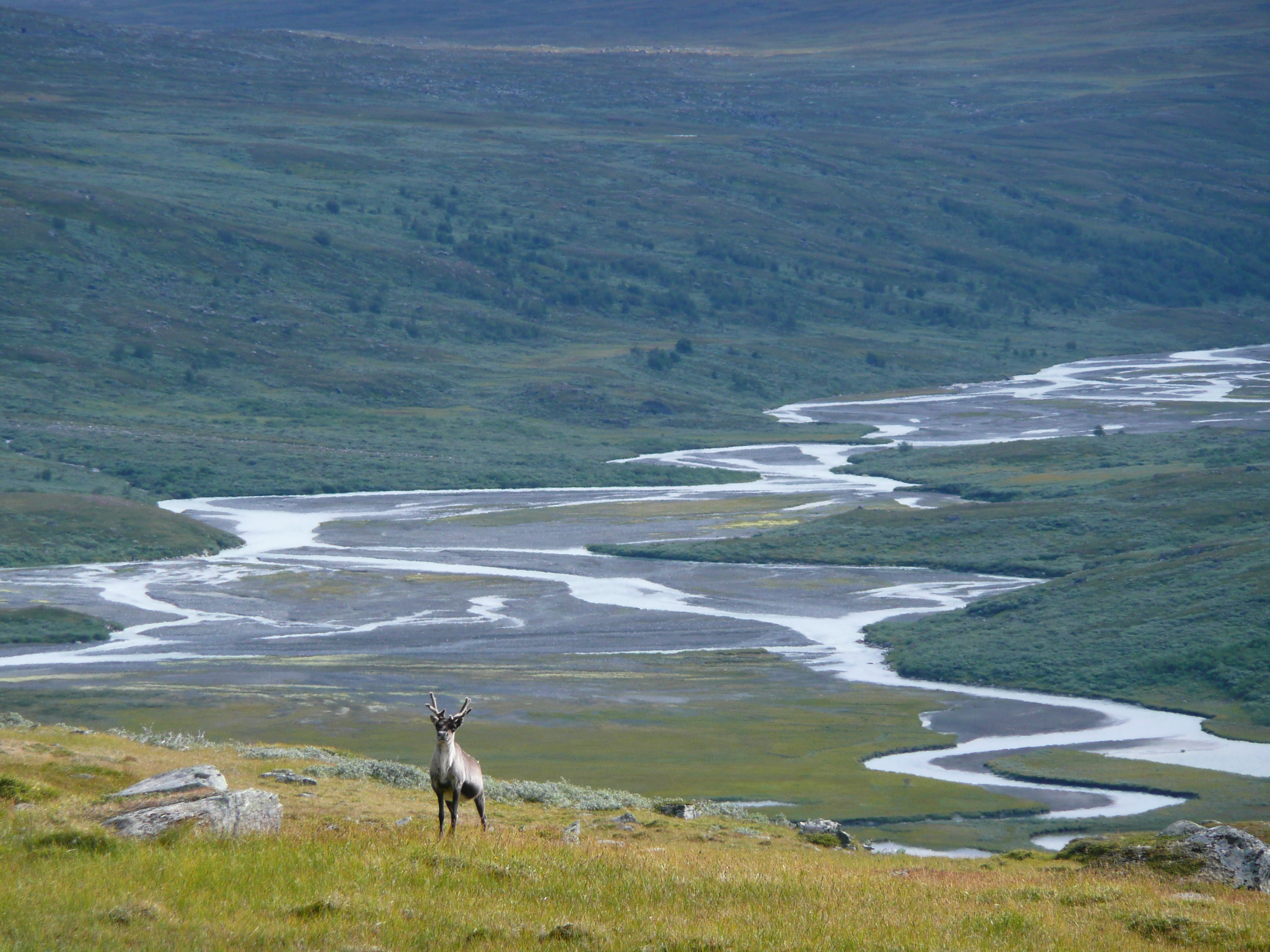 Sweden - Sarek National Park